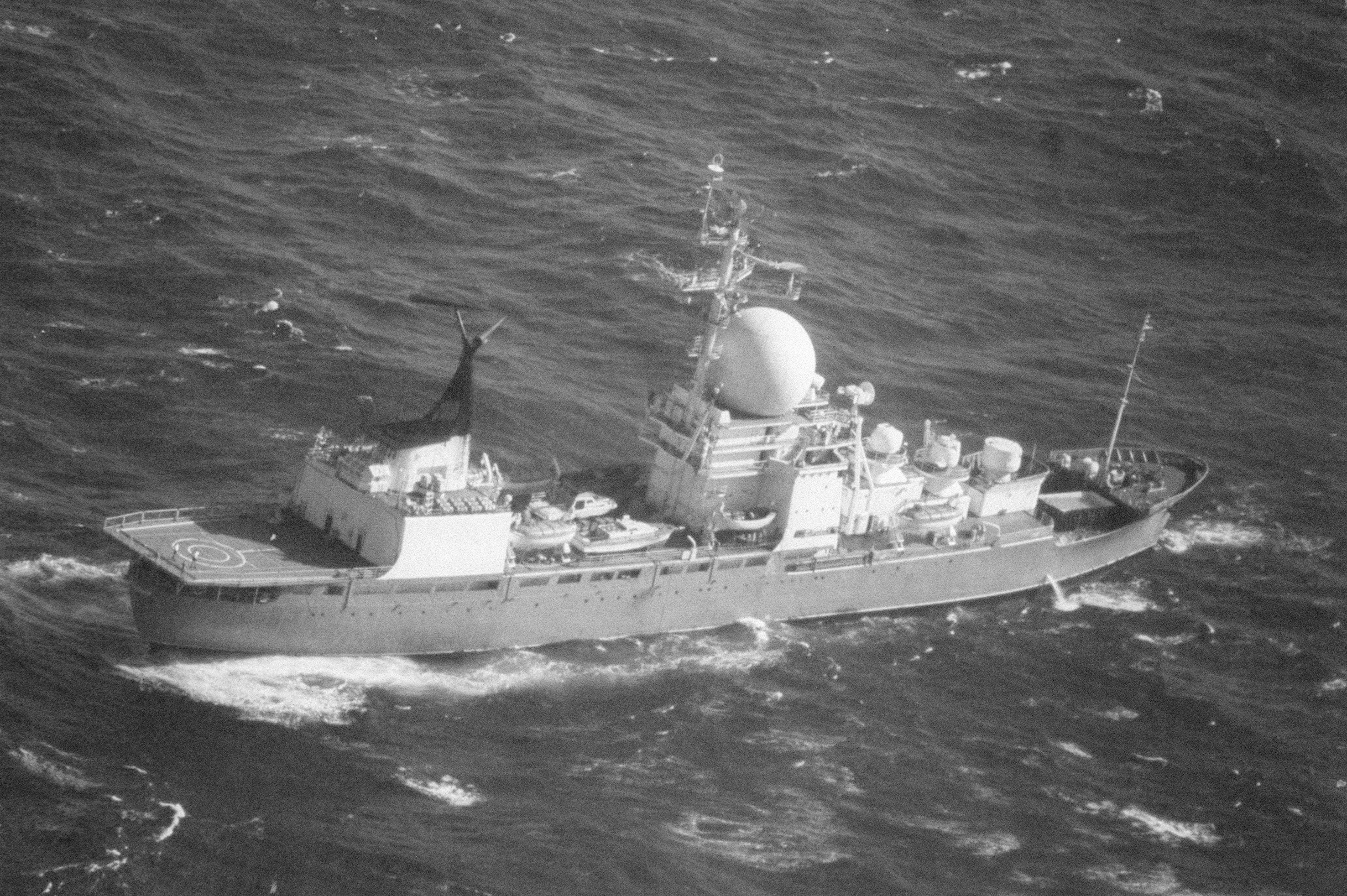 An aerial starboard quarter view of the Soviet Desna-class missile range instrumentation ship Chumikan underway.